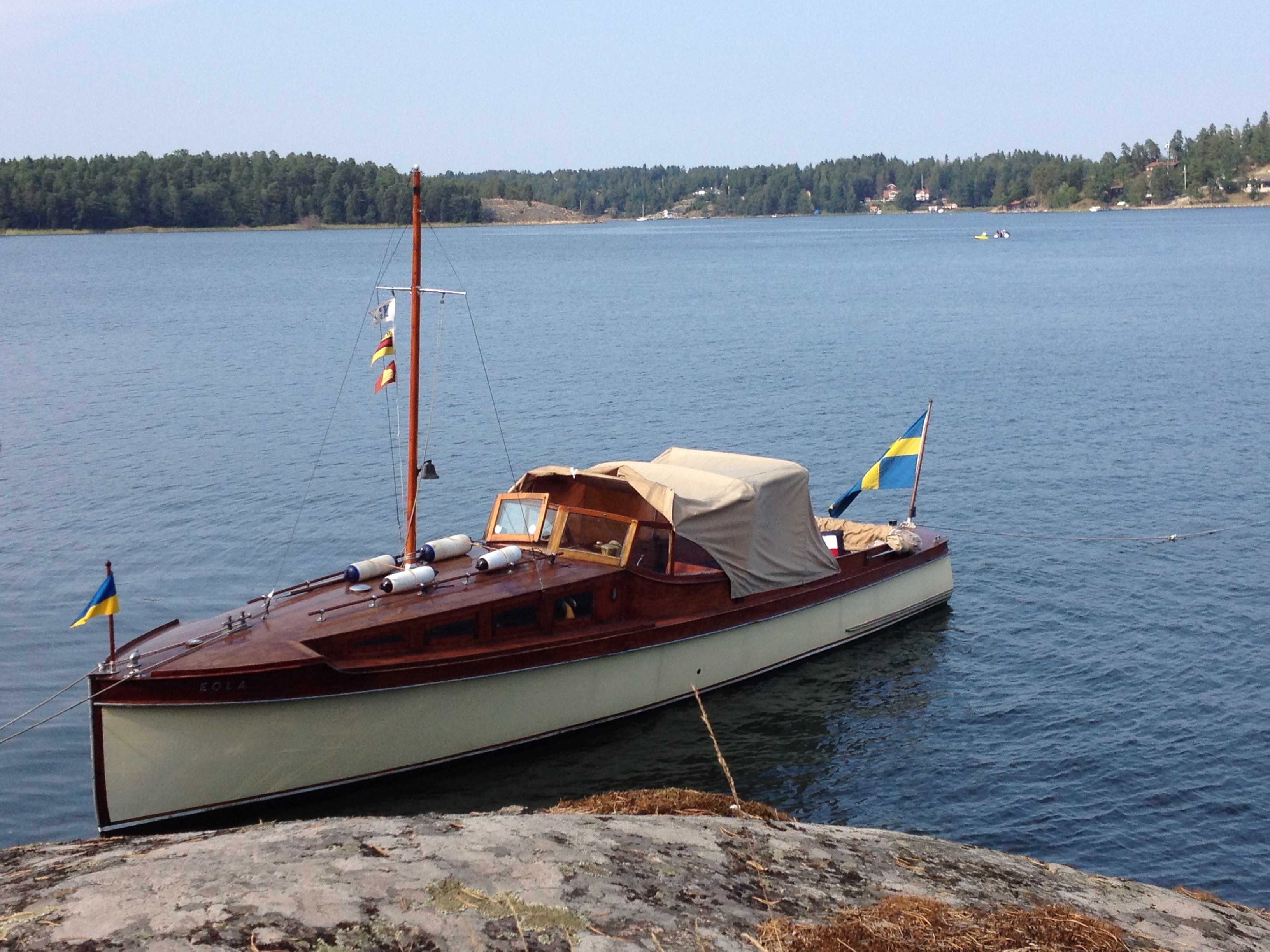 M/Y Eola from 1910, designed by Carl Gustaf Pettersson.